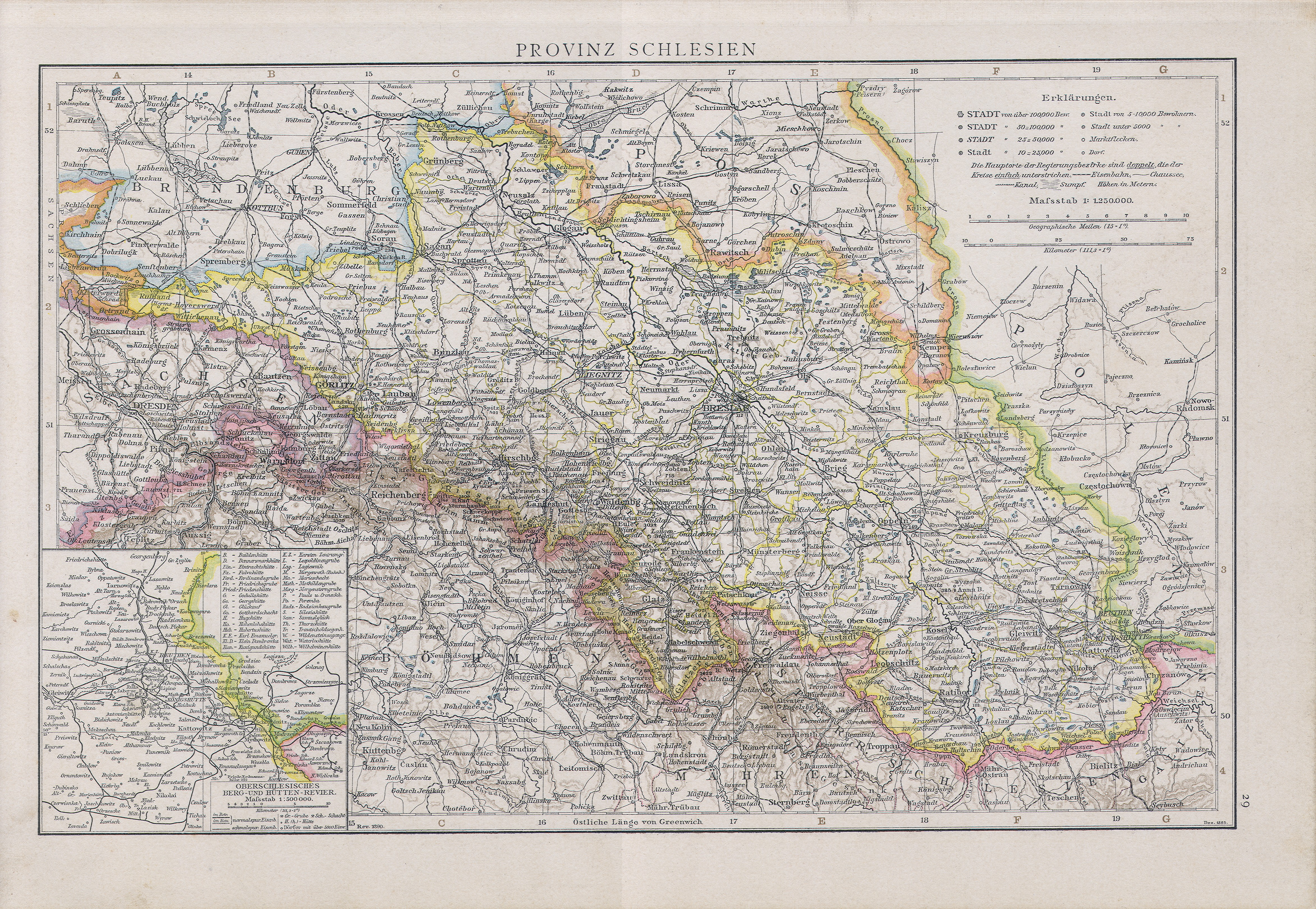 Map of Silesia, 1890